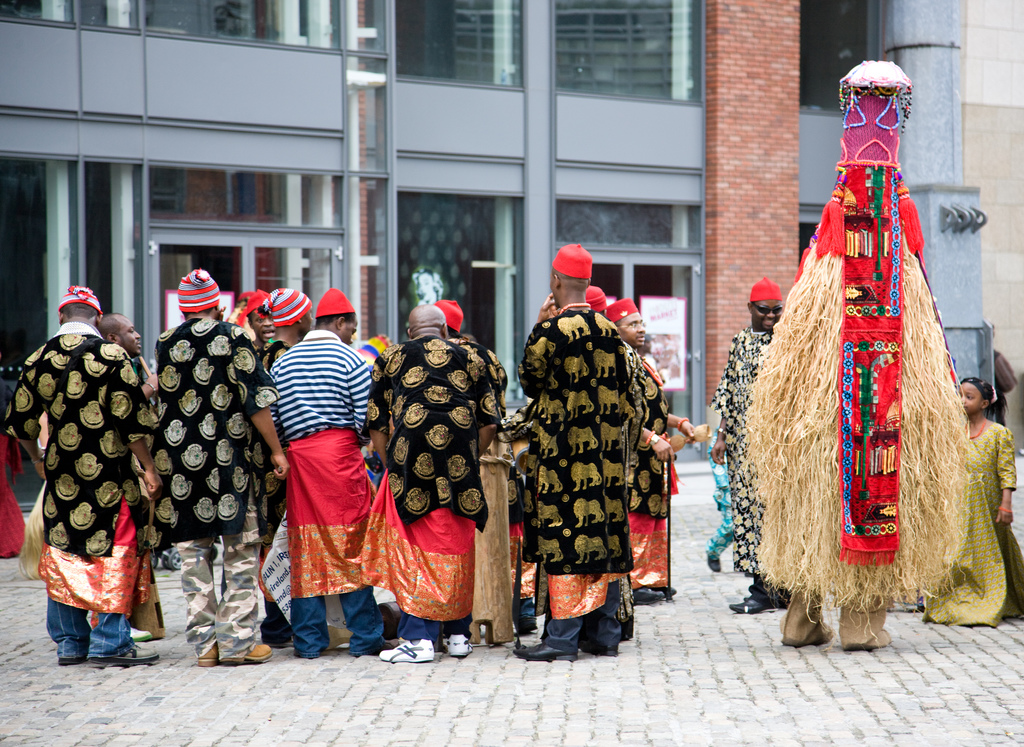 New Yam (igbo) Festival in Dublin